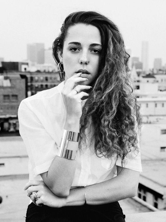 Mahaut Clarke Tolton